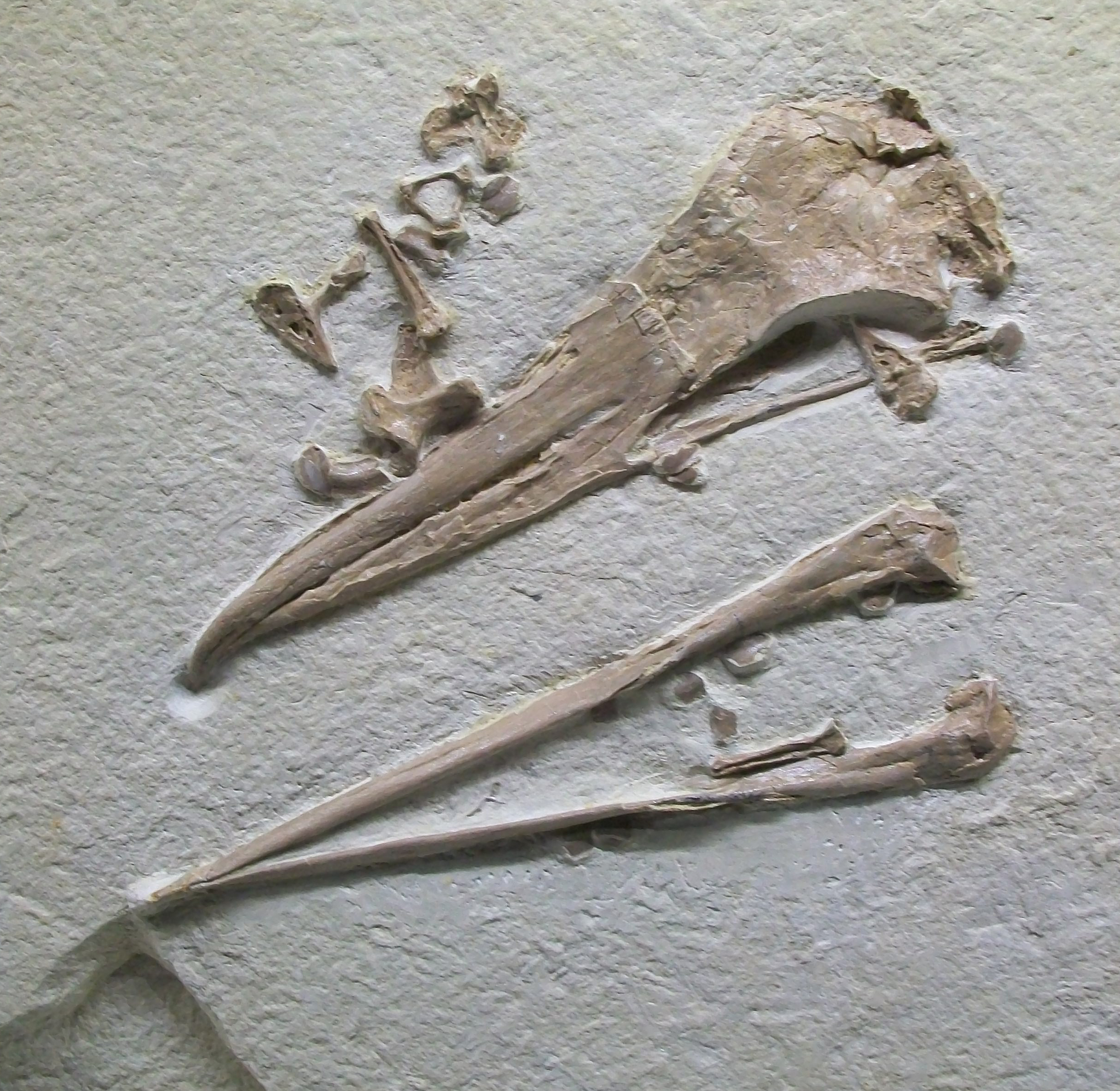 Skull of Limnofregata hasegawai in the Field Museum of Natural History.